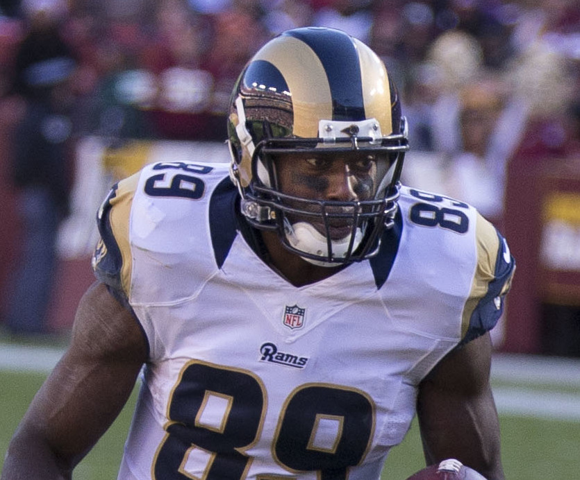 Rams at Redskins 12/7/14